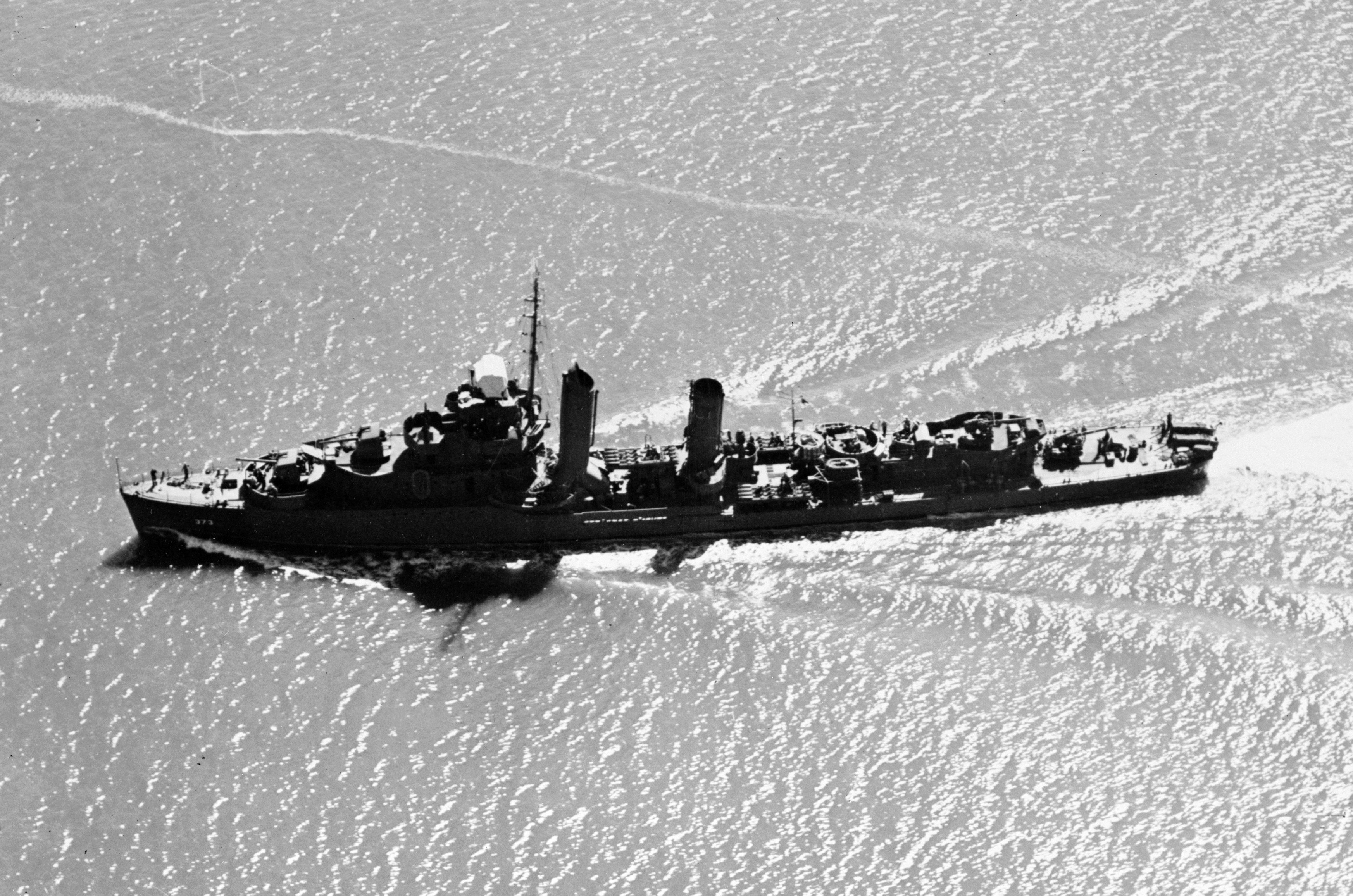 The U.S. Navy Mahan-class destroyer USS Shaw (DD-373), circa 1942.